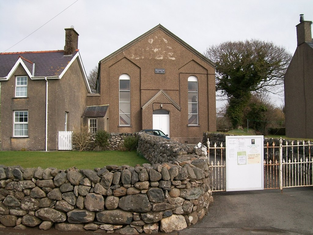 The chapel where Lloyd George got married This is the Calvinist Methodist Capel Pencaenewydd chapel, built in 1822. It was here that David Lloyd George, a young solicitor on the make from nearby Llanystumdwy, married Margaret Owen, the daughter of a well to-do farmer from Mynydd Ednyfed, Criccieth in 1888. Margaret's father, Richard Owen, a prominent Calvinistic Methodist, looked with disapproval on Lloyd George who was a member of the Disciples of Christ, an obscure Free Baptist sect.